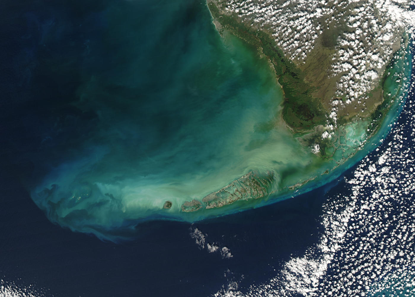 Turbid waters surround southern Florida and the Florida Keys in this true-color Moderate Resolution Imaging Spectroradiometer (MODIS) image taken by the Aqua satellite on December 2, 2003. Clouds of milky blue, green, and tan sediments and microscopic marine organisms (like phytoplankton and algae) discolor the water in the Gulf of Mexico north of the Keys, but end abruptly in the deeper water of the Straits of Florida. The water north of the Keys is relatively shallow, so sediments are a likely cause of the discoloration—rough waters can churn up the mud from the sea floor, which then clouds the water. But in the deeper water south of the Keys, sediment on the sea floor is much harder to disturb, which keeps the water clearer. The Keys are a collection of islands, islets, and reefs stretching from Virginia Key to the Dry Tortugas, a distance of about 309 kilometers (192 miles). They're made mostly of limestone and coral, and are known for their variety of wildlife, subtropical vegetation, and spectacular diving. Most of the islands are connected to the mainland via the Overseas Highway, making this a popular and easily-accessible destination. However, popularity can be a double-edged sword. On the one hand, tourism is one of the economic mainstays of the region, and helps increase public awareness of how fragile this ecosystem is. But on the other hand, those same tourists and their activities can hurt the ecosystem by introducing pollutants and causing physical damage to fragile reefs.